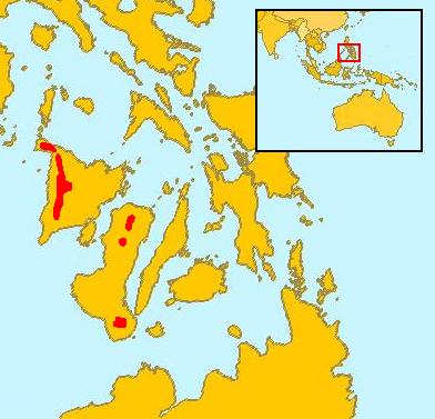 Visayan Warty Pig (Sus cebifrons), range map, made by me with help of depending on the range map at IUCN red list